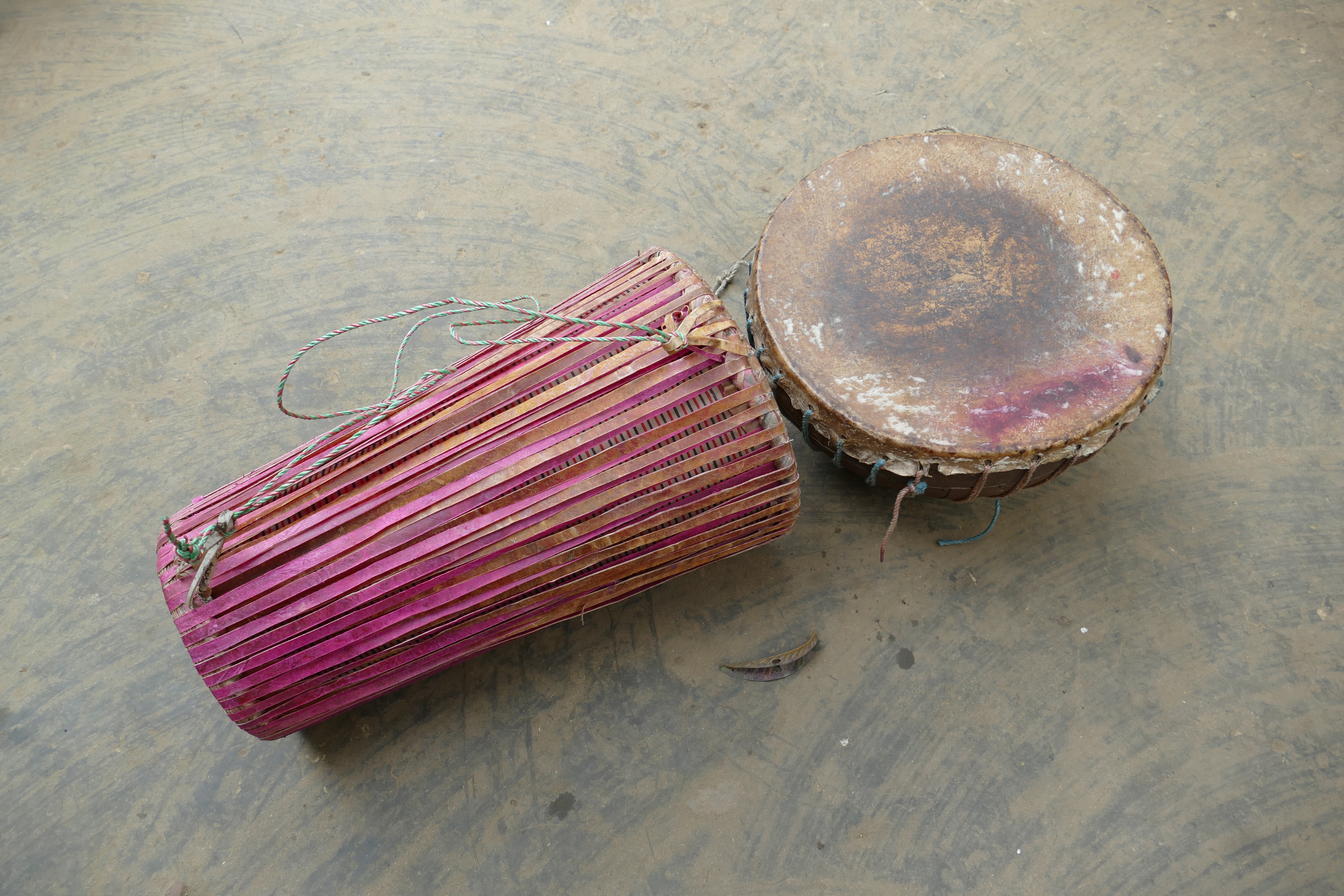 Tamak (r.) and Tumdak (l.) - typical drums of the Santhal people, photographed in a village in Dinajpur district, Bangladesh This photo has been taken in the country: Bangladesh